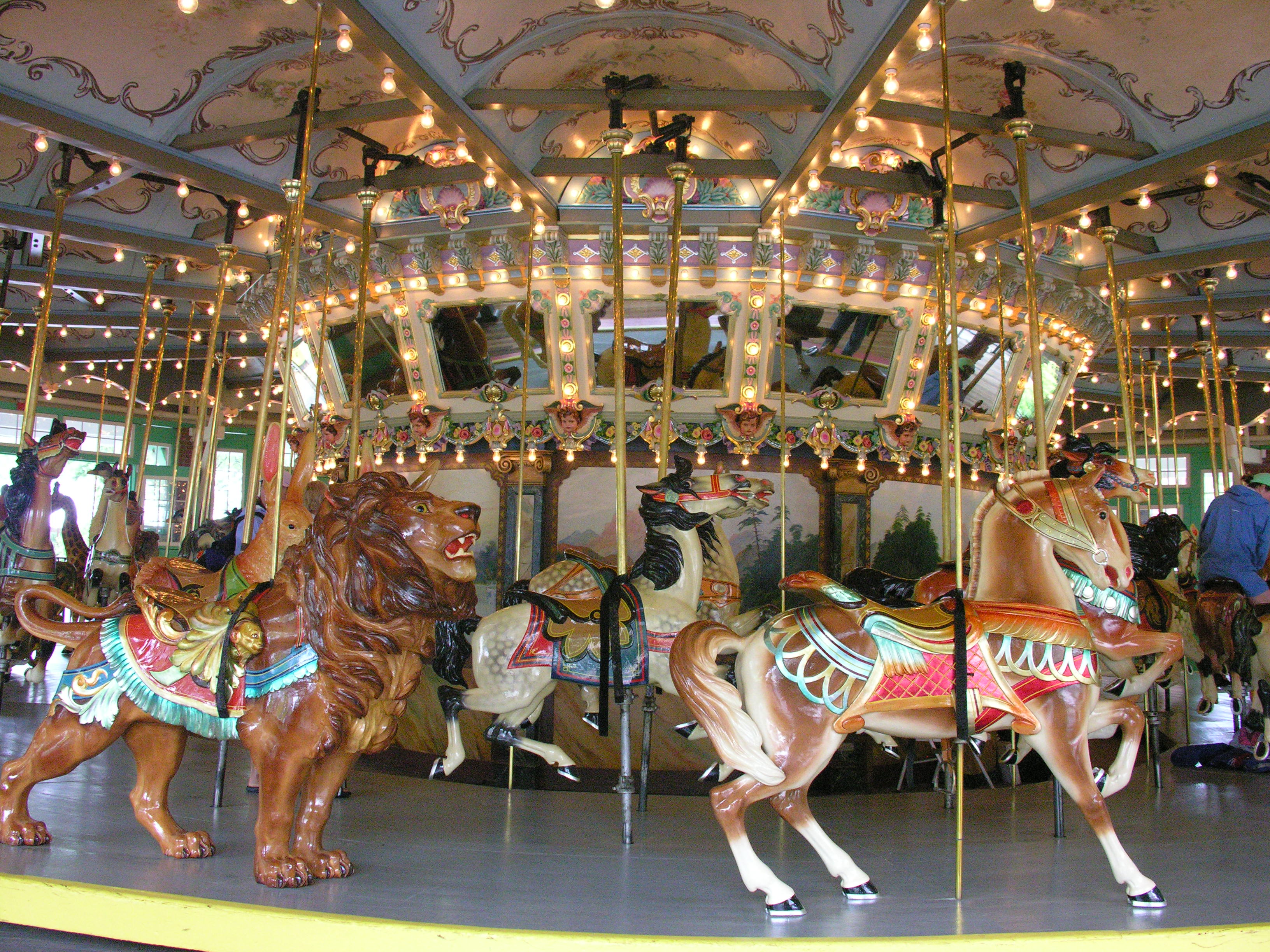 One side of the Carousel at Glen Echo Park, located along MacArthur Boulevard in Glen Echo, Maryland, United States. Built in 1921, it is listed on the National Register of Historic Places.